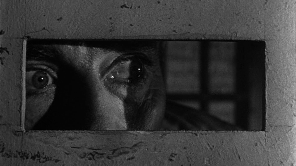 Alfred Hitchcock's The Wrong Man trailer Henry Fonda, Jail